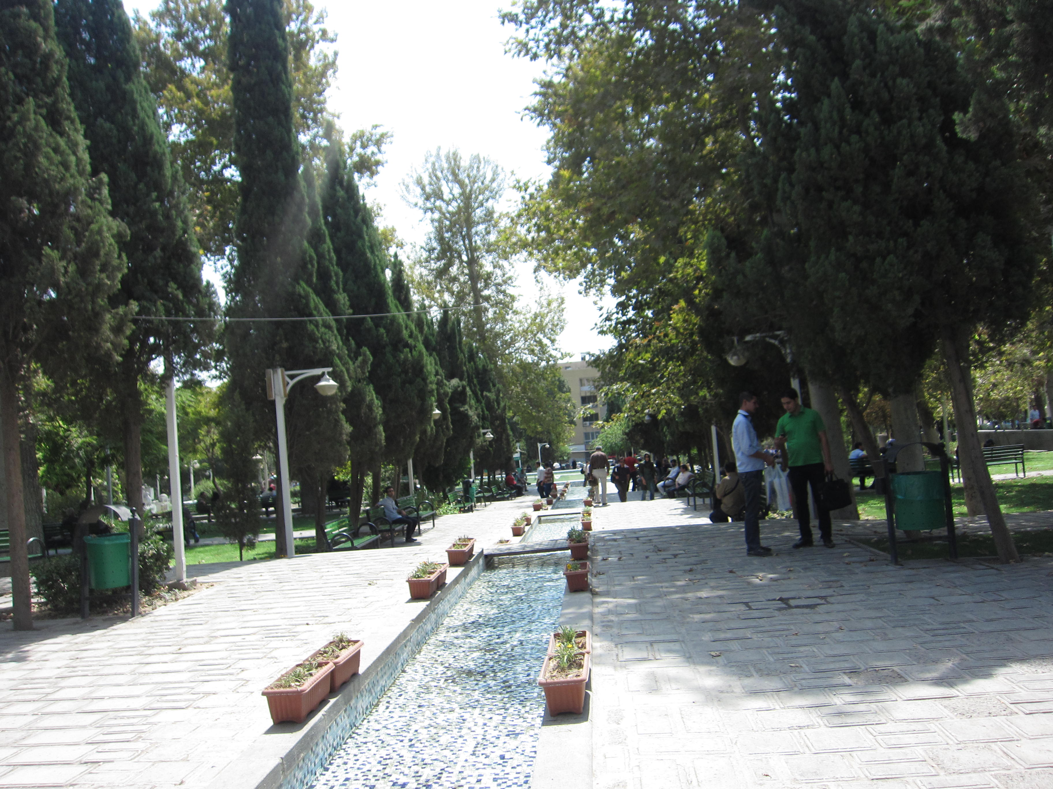 Daneshjoo Park in Tehran, September 2014